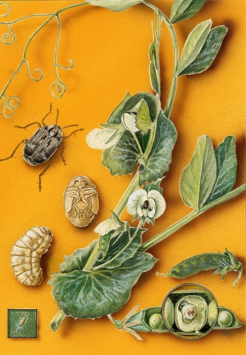 Bruchus pisorum (Linnaeus, 1758) Common Name: pea weevil Photographer: Art Cushman, USDA; Property of the Smithsonian Institution, Department of Entomology, United States Contact: David G. Furth, National Museum of Natural History, Smithsonian Institution Descriptor: Diagram or Graphic Description: Illustration by Arthur Cushman Image taken in: United States